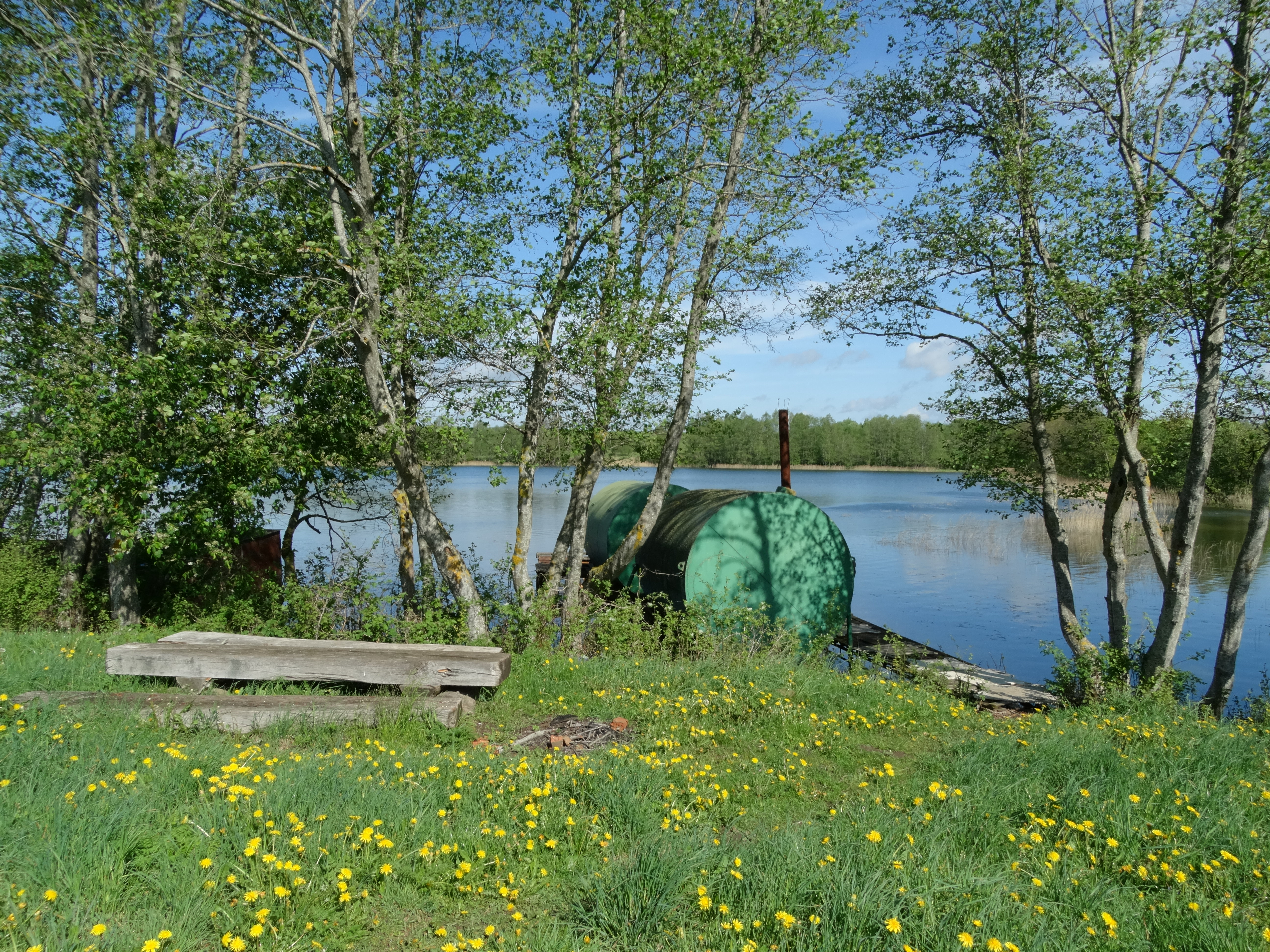 Lake Kliepšiai, Ukmergė District, Lithuania